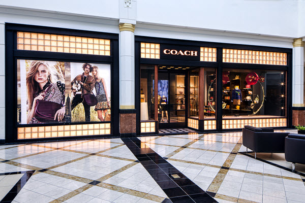 Coach Store inside mall featuring ads and new logo